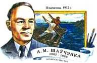 Belarusian Soviet artist Akim Shevchenko